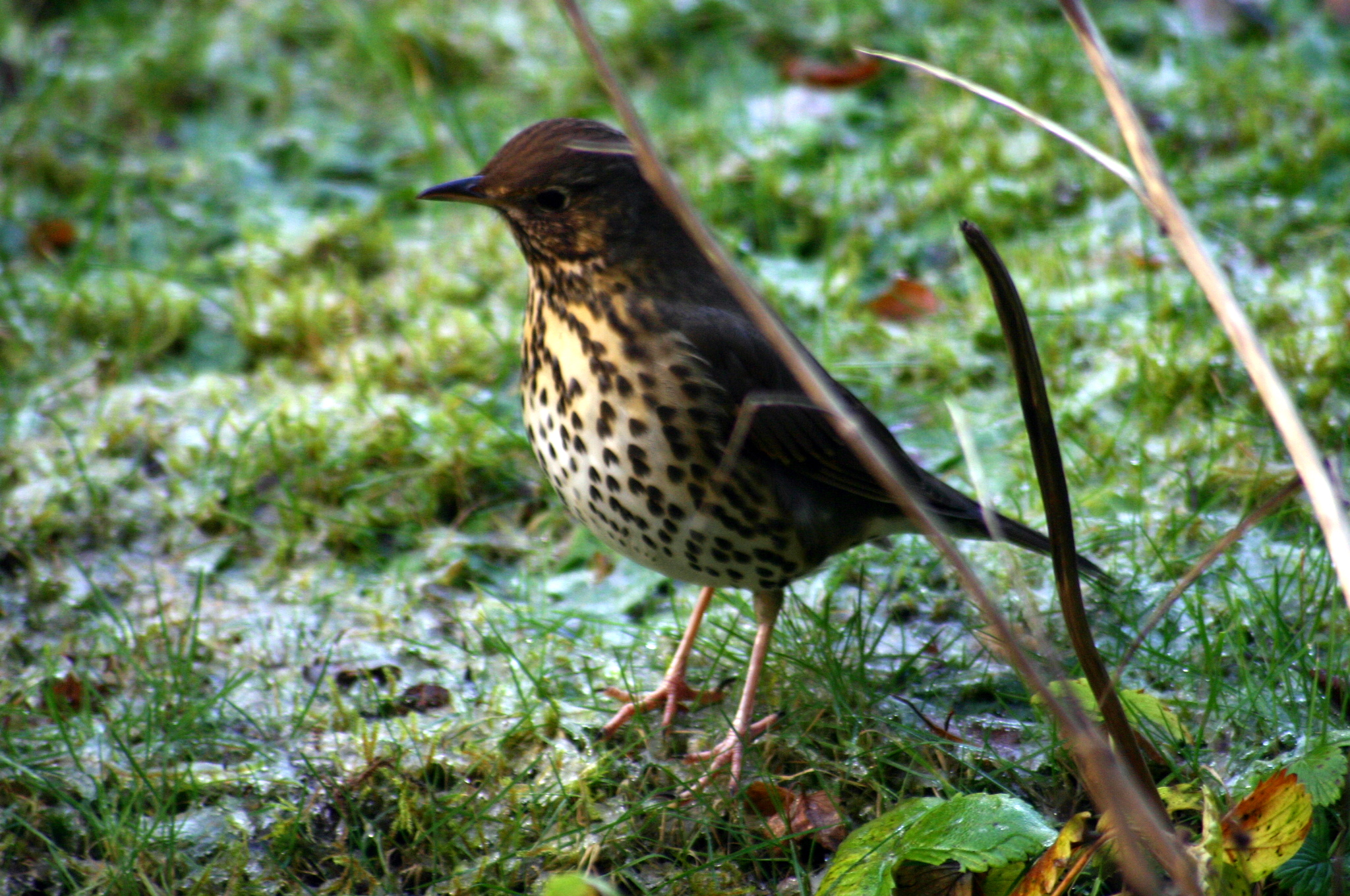 Song Thrush (Turdus philomelos) in frost in Scotland